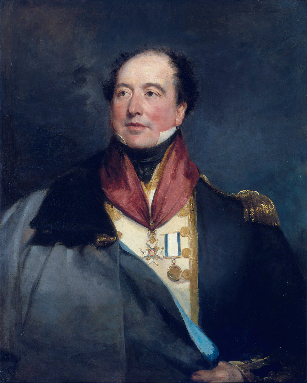 A portrait of Captain Sir Chrisopher Cole, a Royal Navy officer of the early nineteenth century.